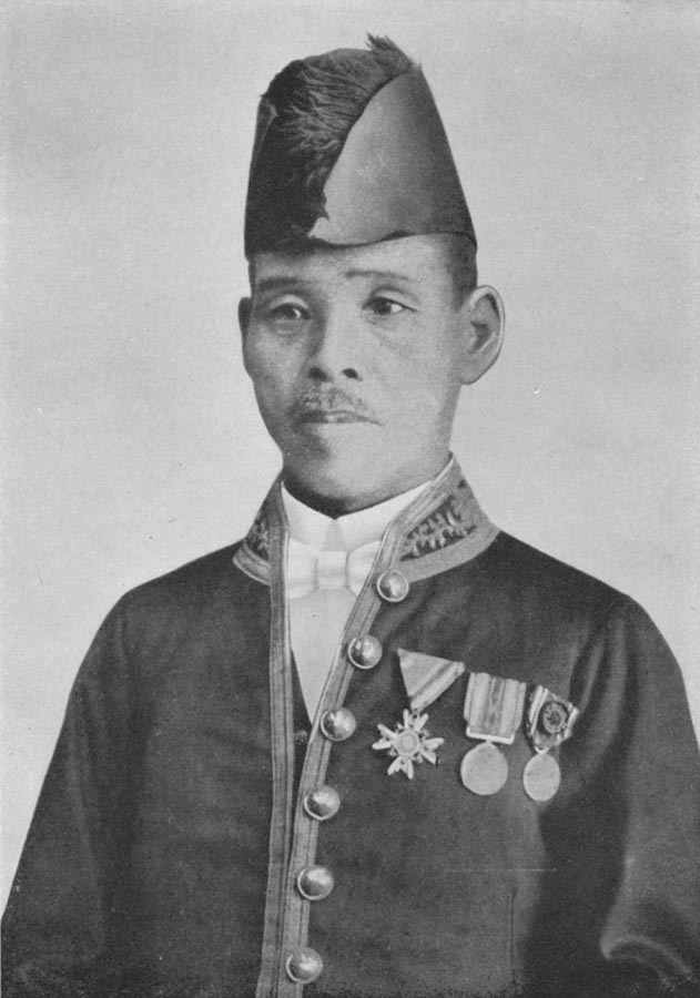 Mr. Entarō Noguchi.